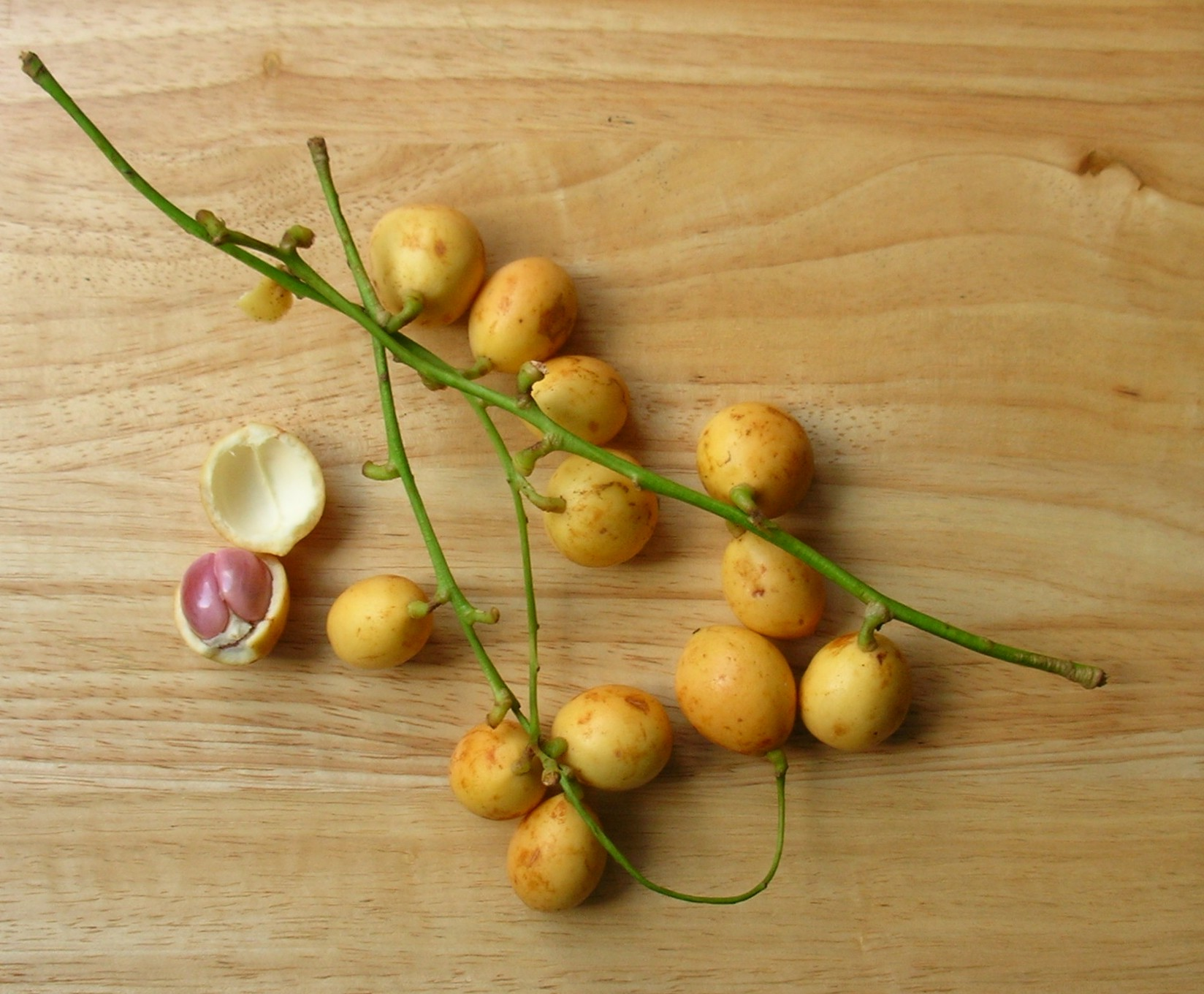 Burmese grape (Baccaurea ramiflora) in Thailand